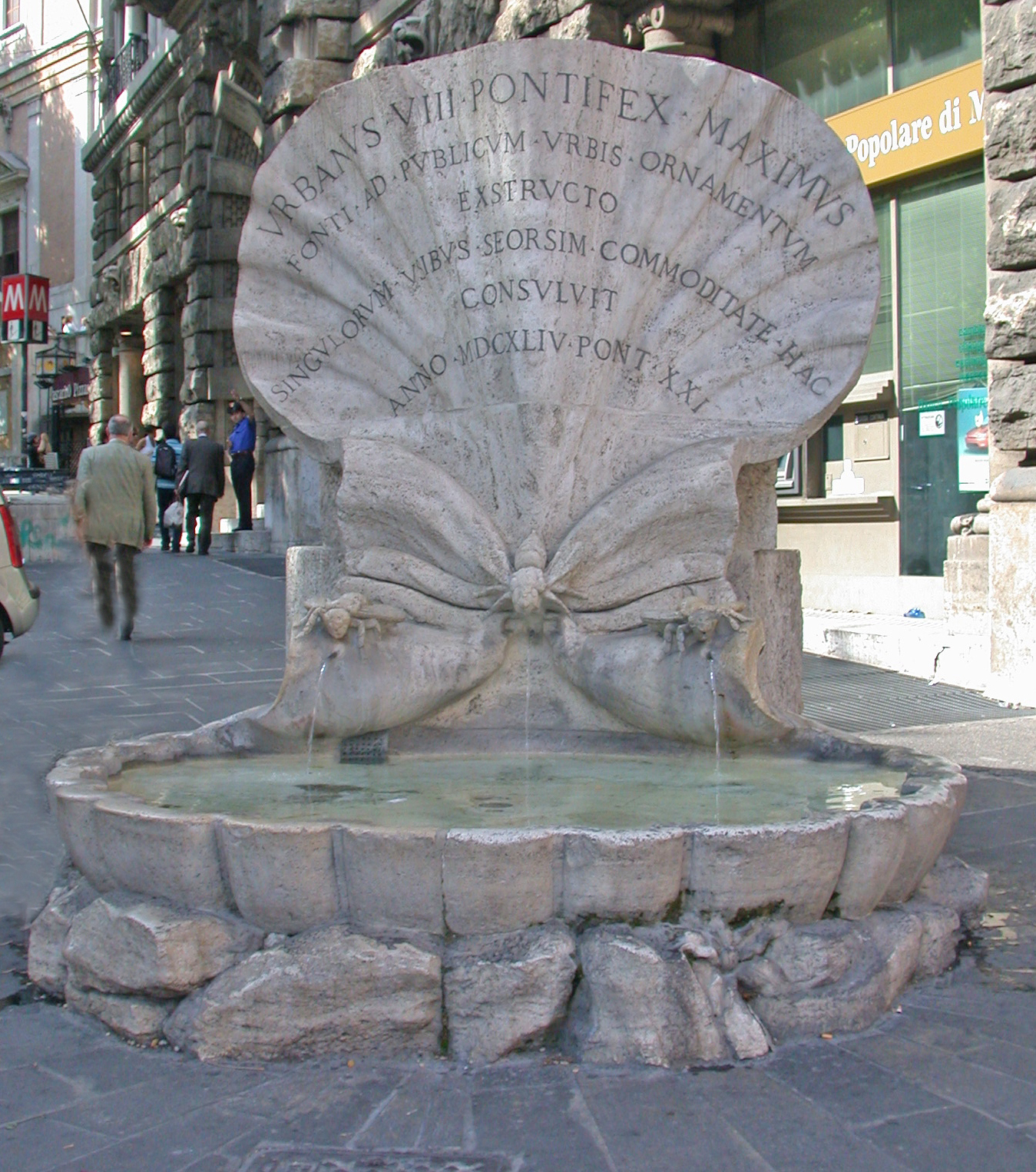 Fontana delle api ("Bees fountain") in Piazza Barberini square (Rome), displaying the plaque dedicating the nearby Fountain of the Triton, by Gianlorenzo Bernini. The bees come from the coat of arms of the House of Barberini, to which Pope Urbanus VIII (who built the fountain) belonged. Personal photo (june 2005) by MM in it.wiki .